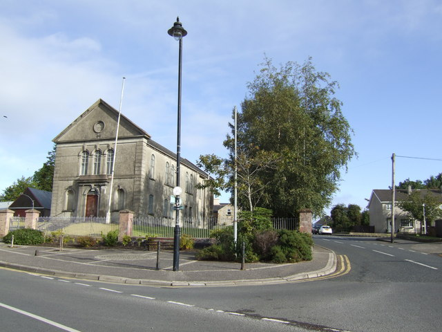 Orange Hall, Derrygonnelly At the main junction in the village. Now used as an Orange Hall.